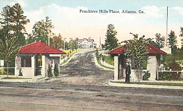 Peachtree Hills Place shortly after 1910